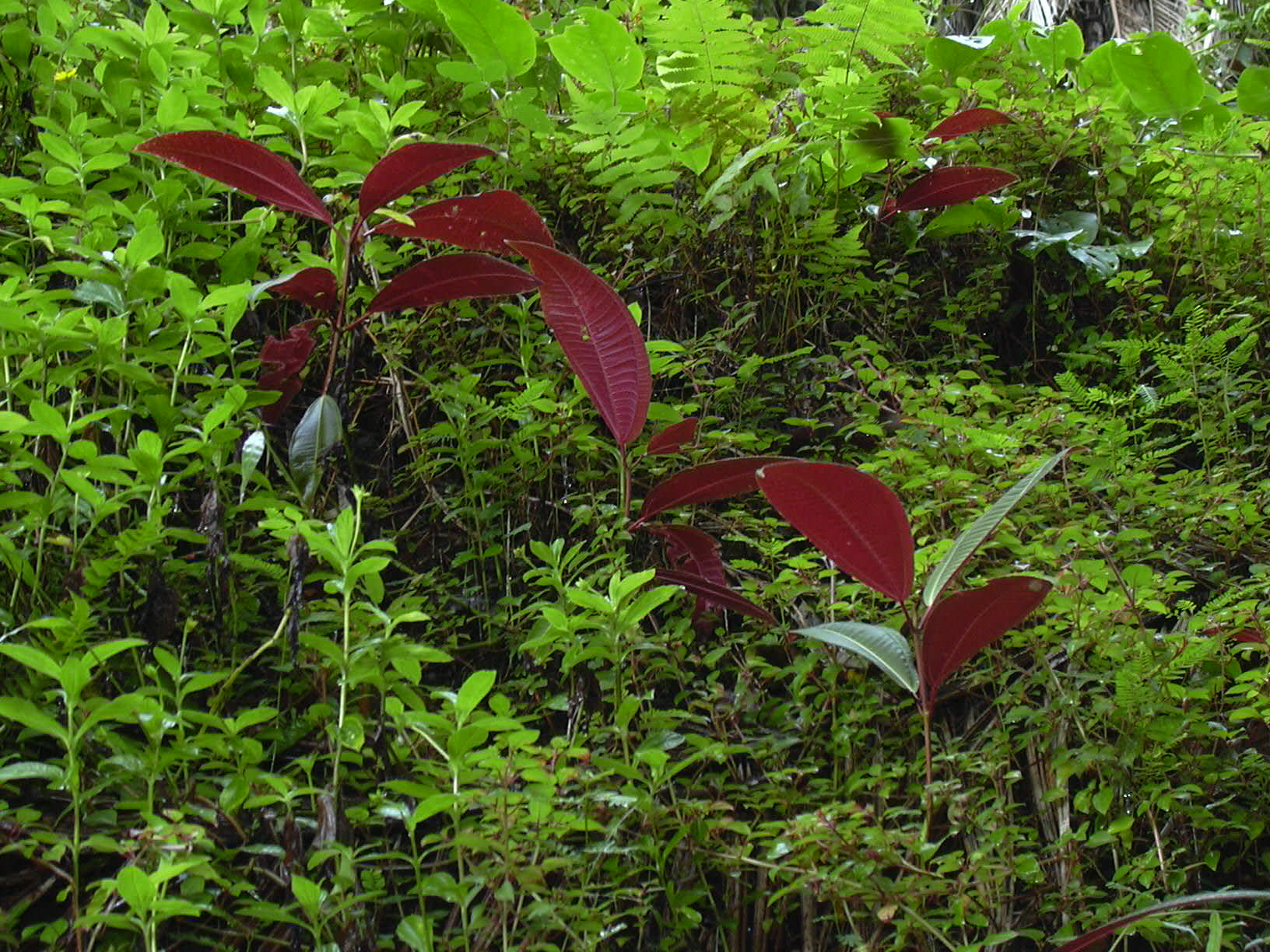 Miconia calvescens (habit). Location: Hawaii, Hilo